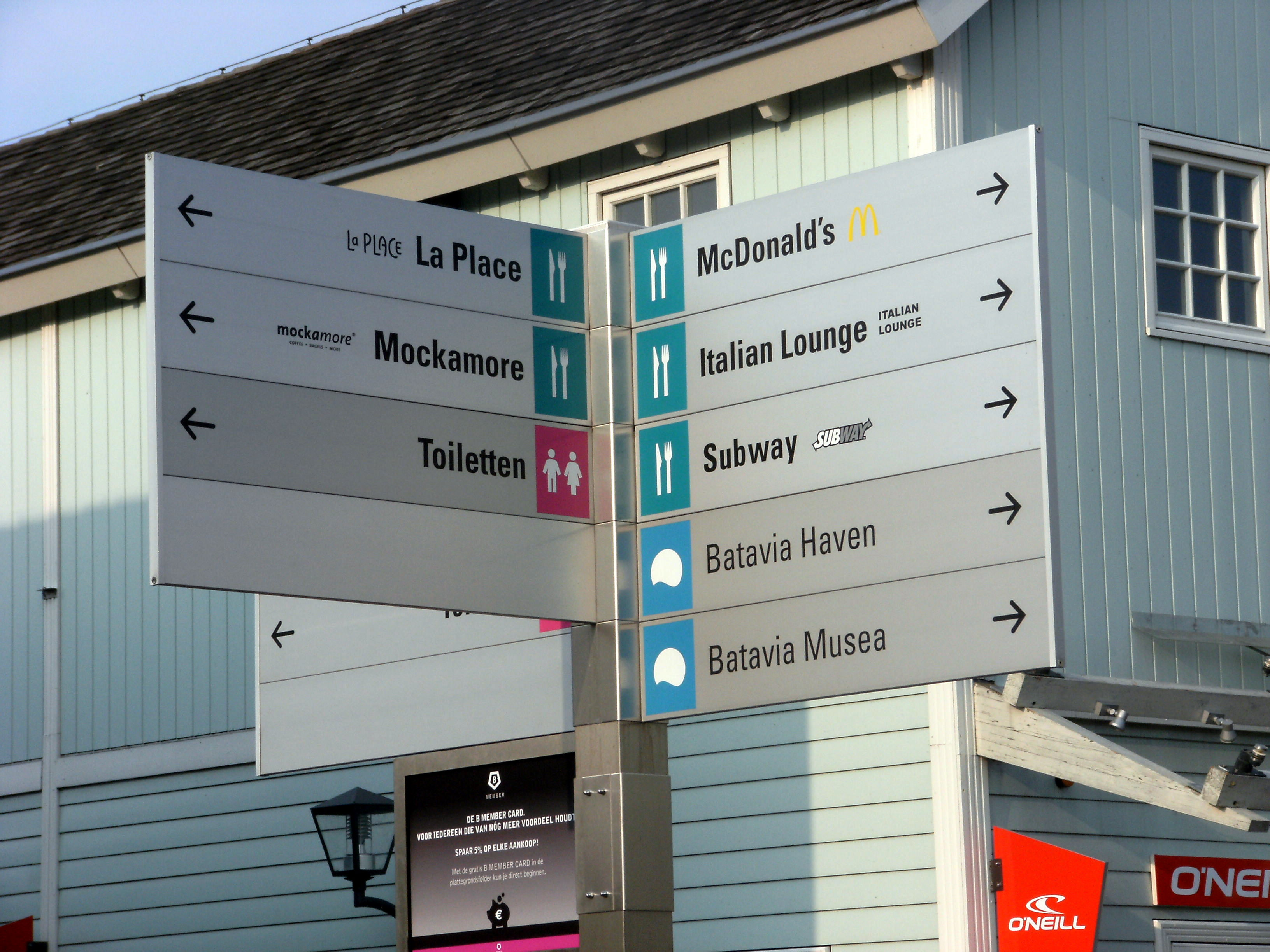 2011-04-17 in Lelystad; Bataviastad. Direction signs